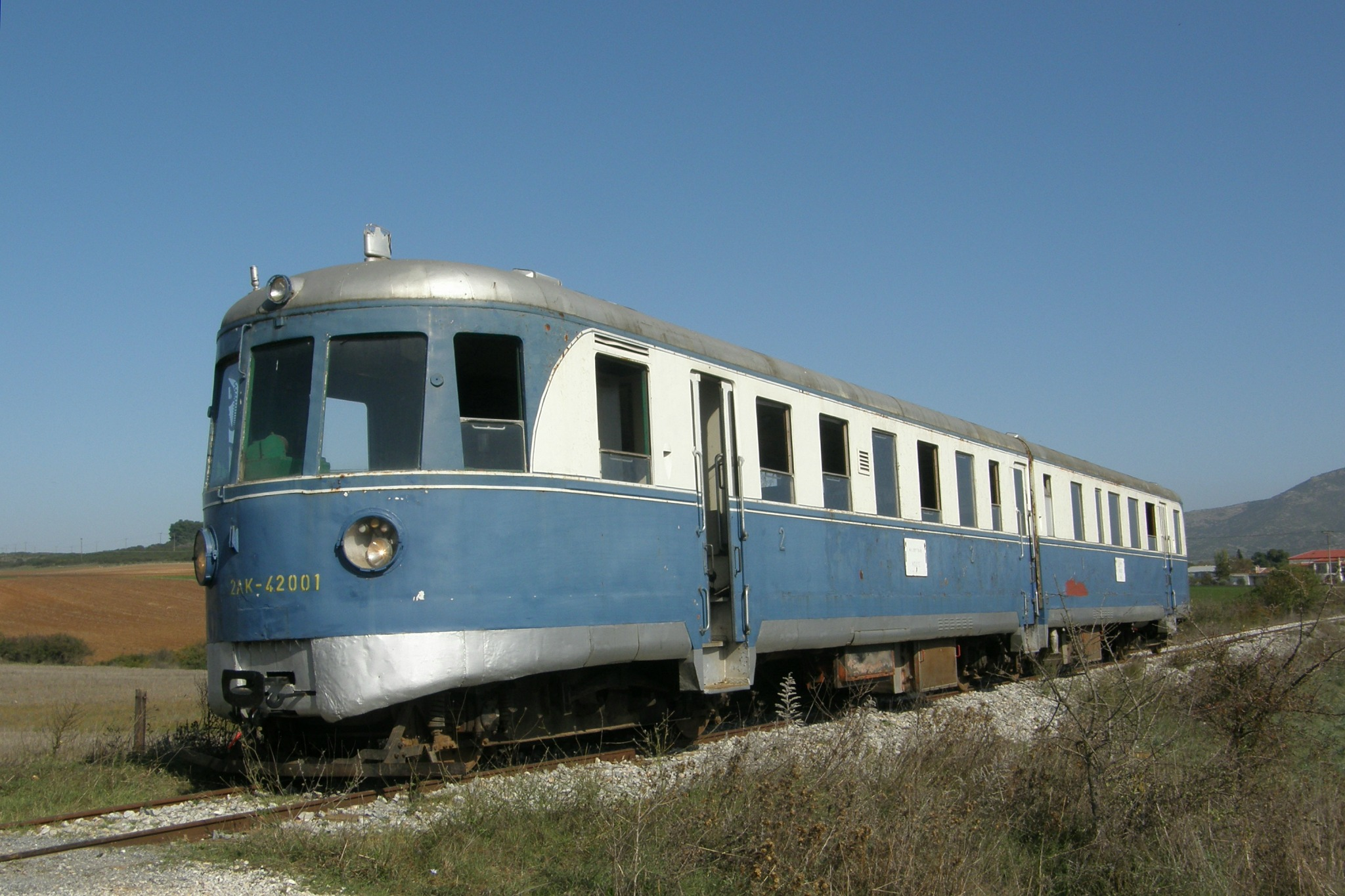 Greece: A charter service with preserved metric DMU-2 trainset 4201 (formerly 2AK420.01 of Piraeus-Athens-Peloponnese railways) on the disused Thessaly Railways metric line near Aerinon.